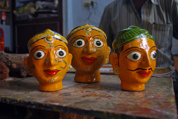 Cherial Mask